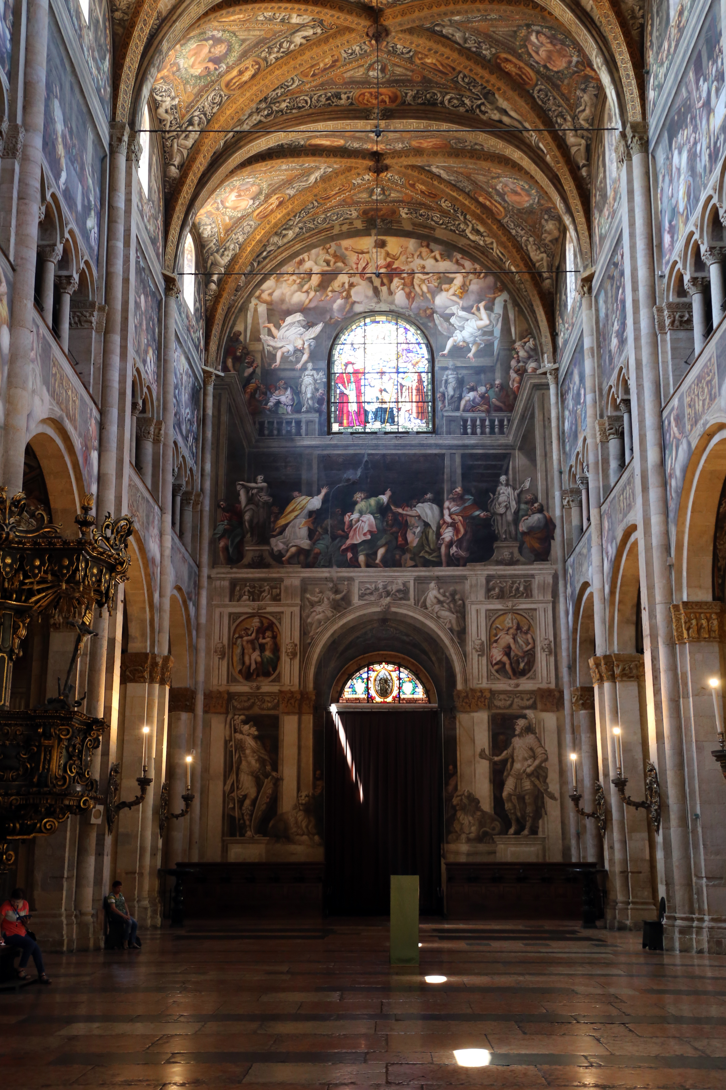 Cathedral (Parma) - Interior